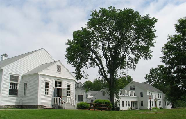 Photograph of Marlboro College campus. Building on left is the dining hall. Building on the right is Mather (administrative offices).